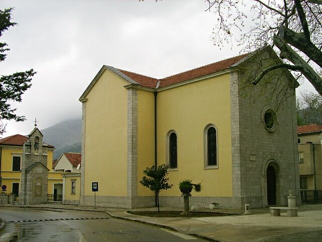 Trebinje, Bosnia and Herzegovina. Catholic church without a tower (destroyed in 1992)